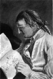 Captain James Cornwallis aboard HMS Pallas, 1774-75. Portrait by Lieutenant Gabriel Bray